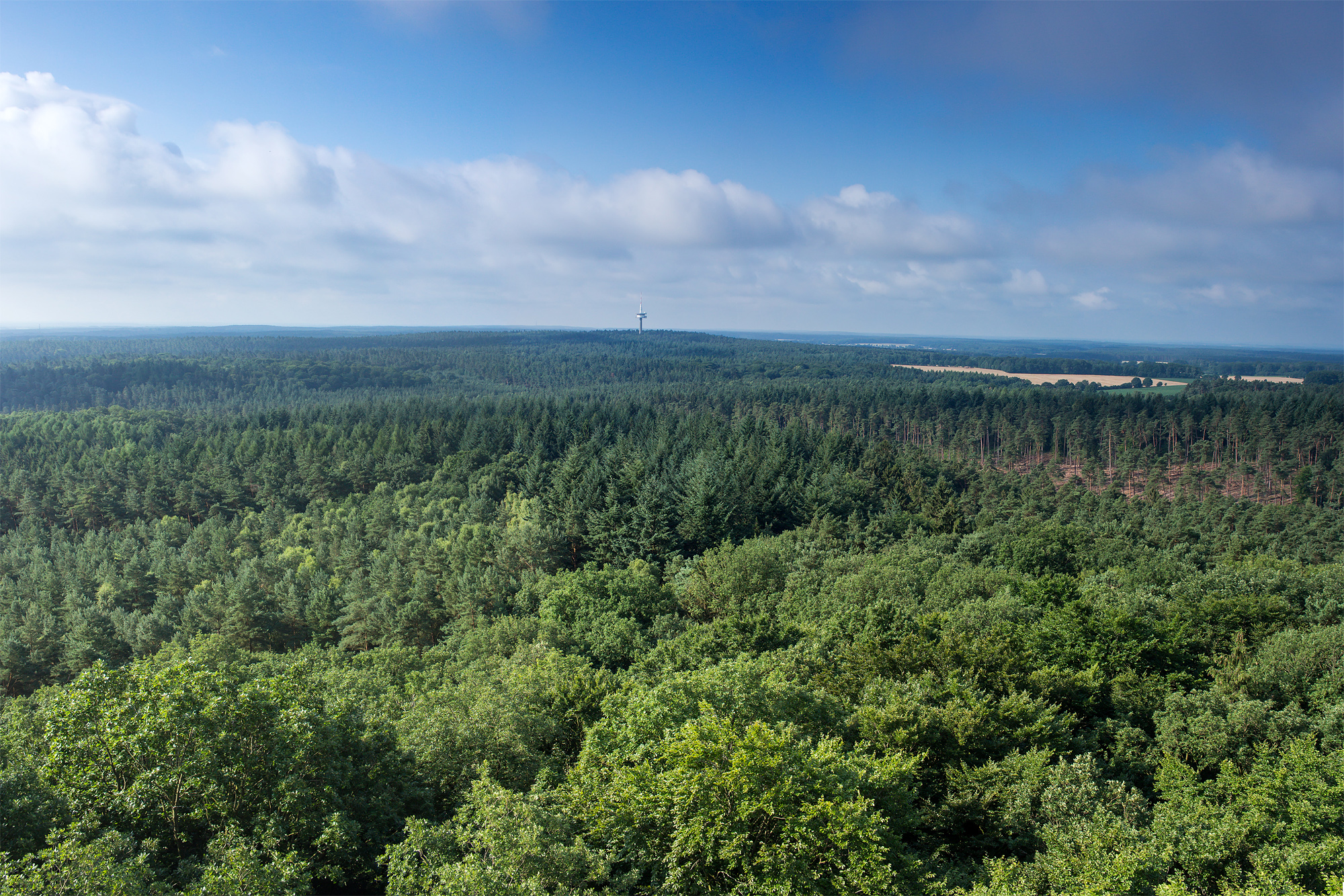 View from the "Hoher Mechtin", highest altitude of the hilly region "Drawehn" between Hamburg and Berlin (North German Lowland). Direction: south (in the background the "Pampower Berg" with telecommunication tower).